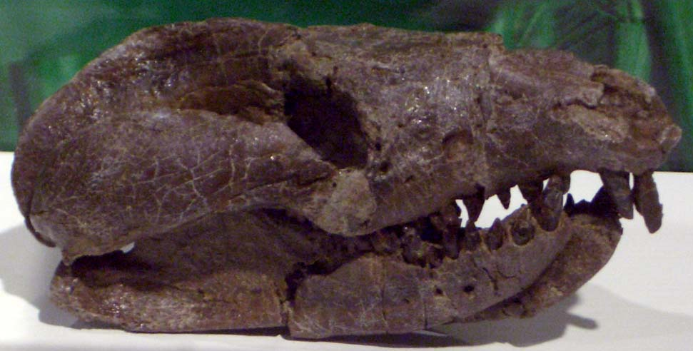 Repenomamus giganticus skull fossil displayed in Hong Kong Science Museum